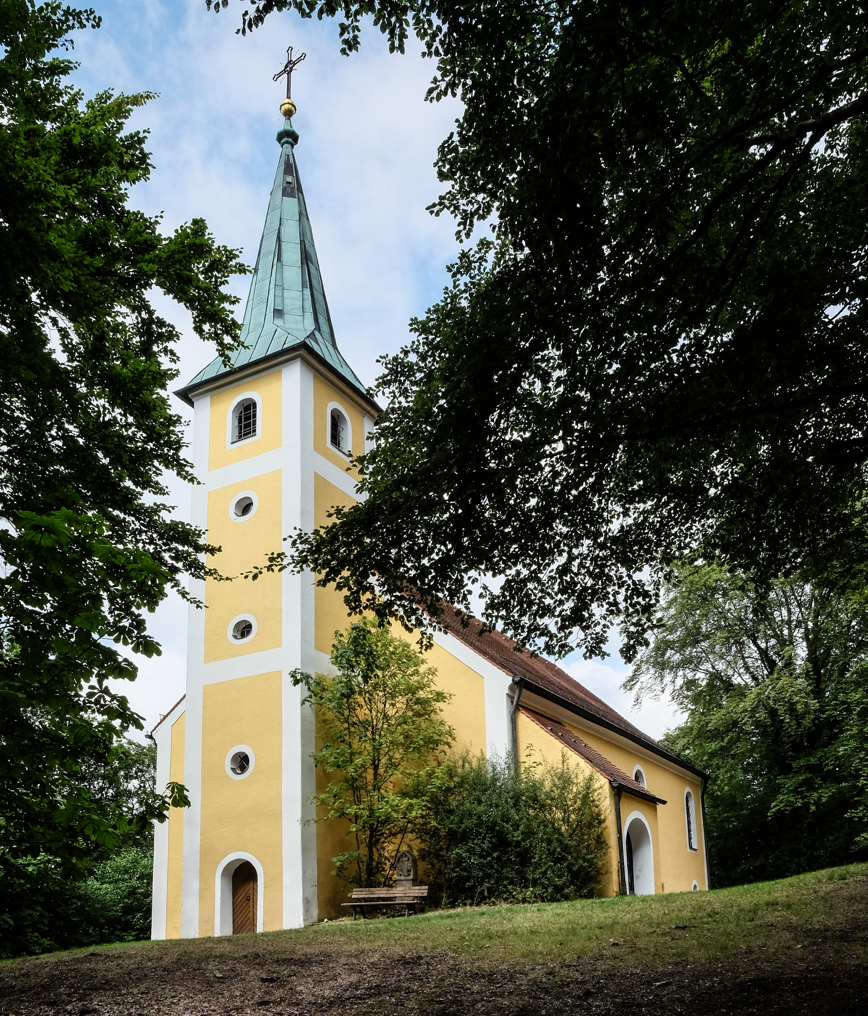 Pilgrimage church St John the Baptist, Freudenberg, district Amberg-Sulzbach, Bavaria, Germany